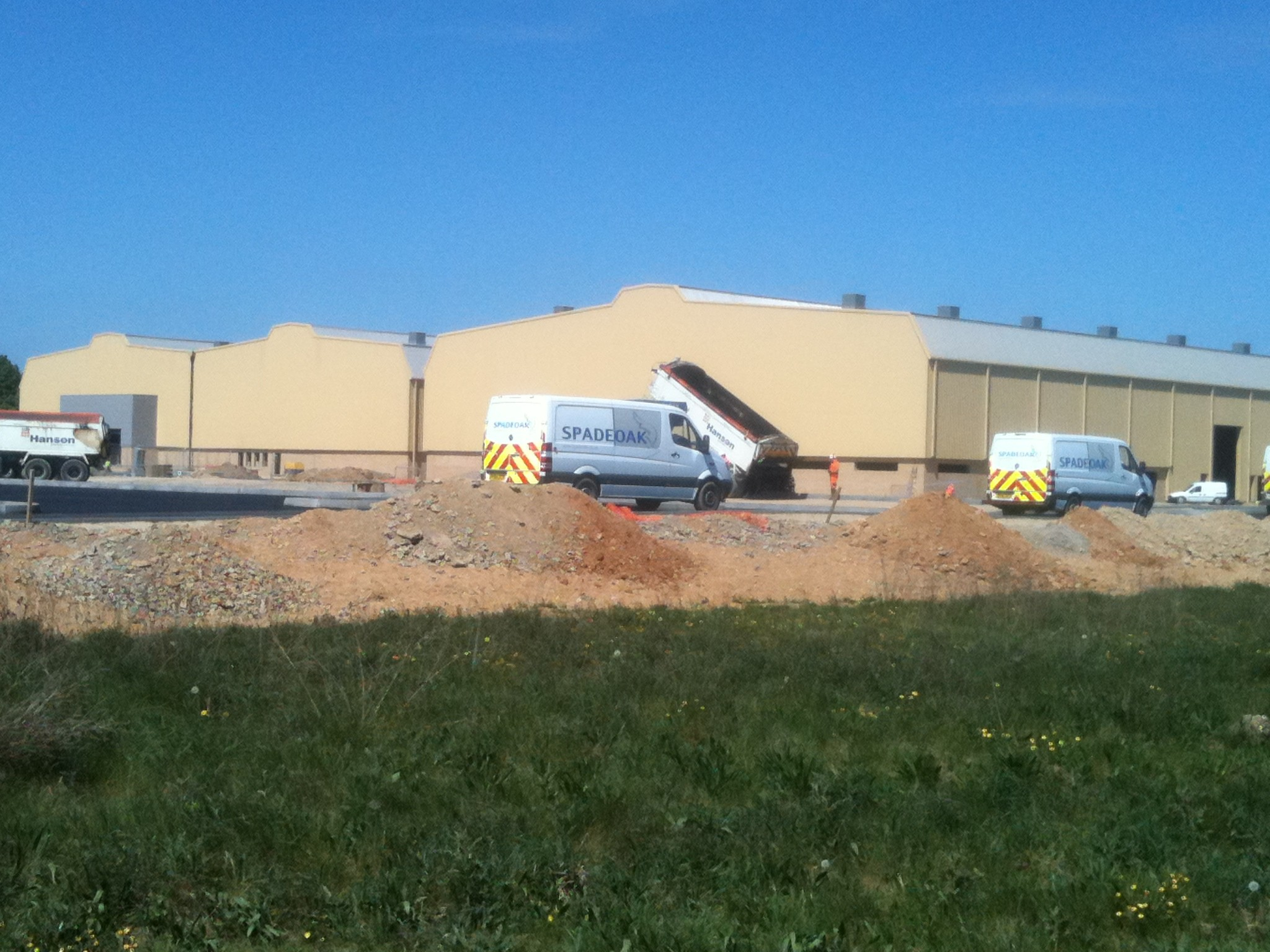 Construction work for the Warner Bros. Studio Tour London